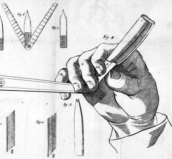 Drawing form the 1770 book of Jean-Jacques Perret, "La pogonotomie, ou L'art d'apprendre a se raser soi-meme"